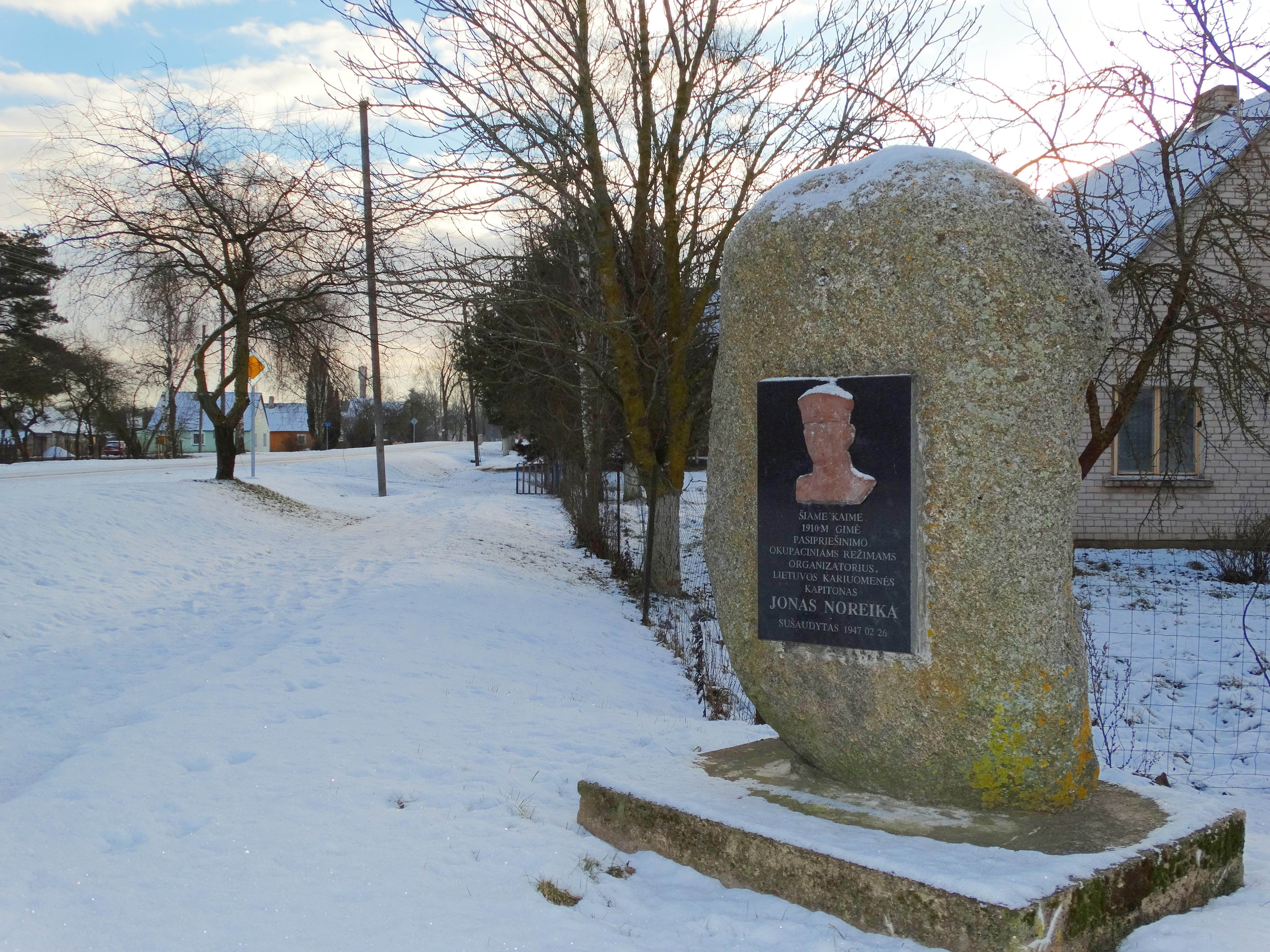 Stone in memory of Jonas Noreika, Šukioniai, Pakruojis district, Lithuania